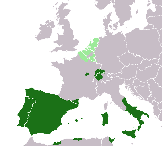 Spanish Empire around 1580 by Rex 14:23, 16 October 2006 (UTC)